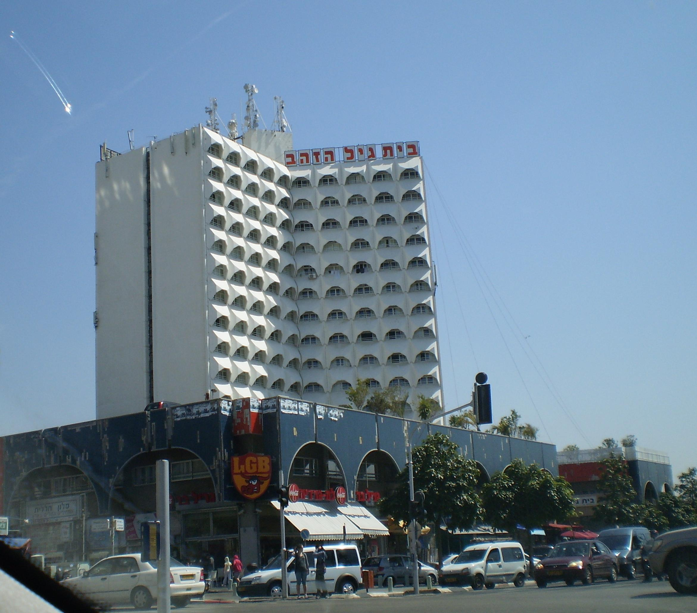 Beit Gil Hazahav, La Guardia street, Tel Aviv